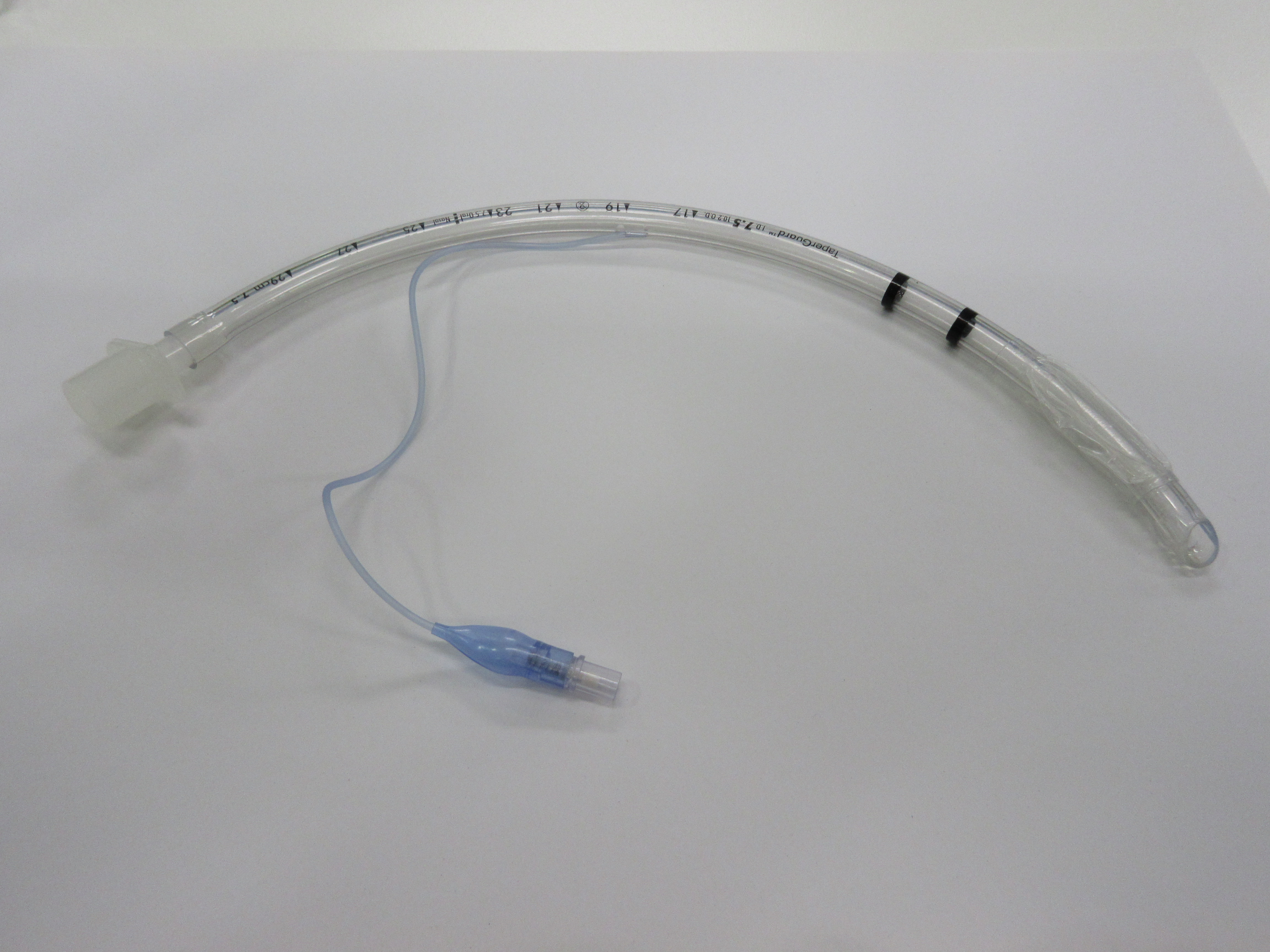 Endotracheal Tube